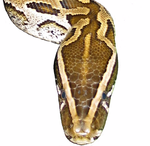 Northern African Rock Pyhon (Python sebae) This animal lives in captivity. The original photo was donated by